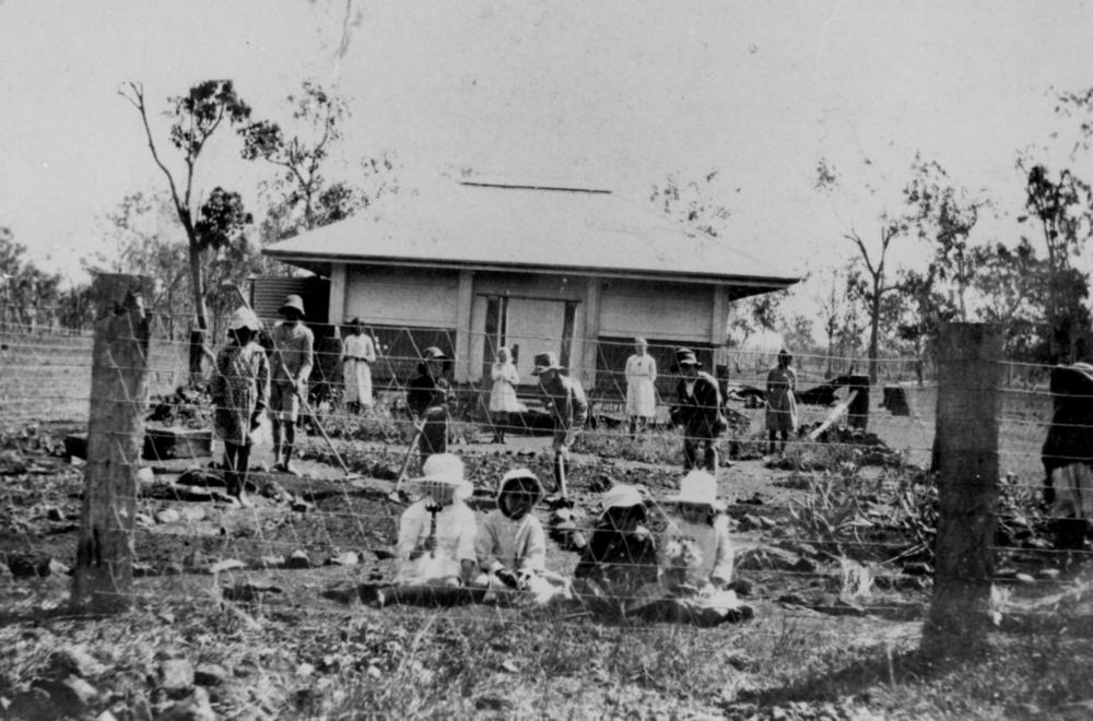 Schoolchildren from Ban Ban Springs State School, tending to the school garden, 1919 Children tending to the garden at Ban Ban Springs State School, near Maryborough, in 1919. Some boys are tilling the soil with hoes and other garden tools, while the young girls at the front appear to be sowing seeds and picking flowers.